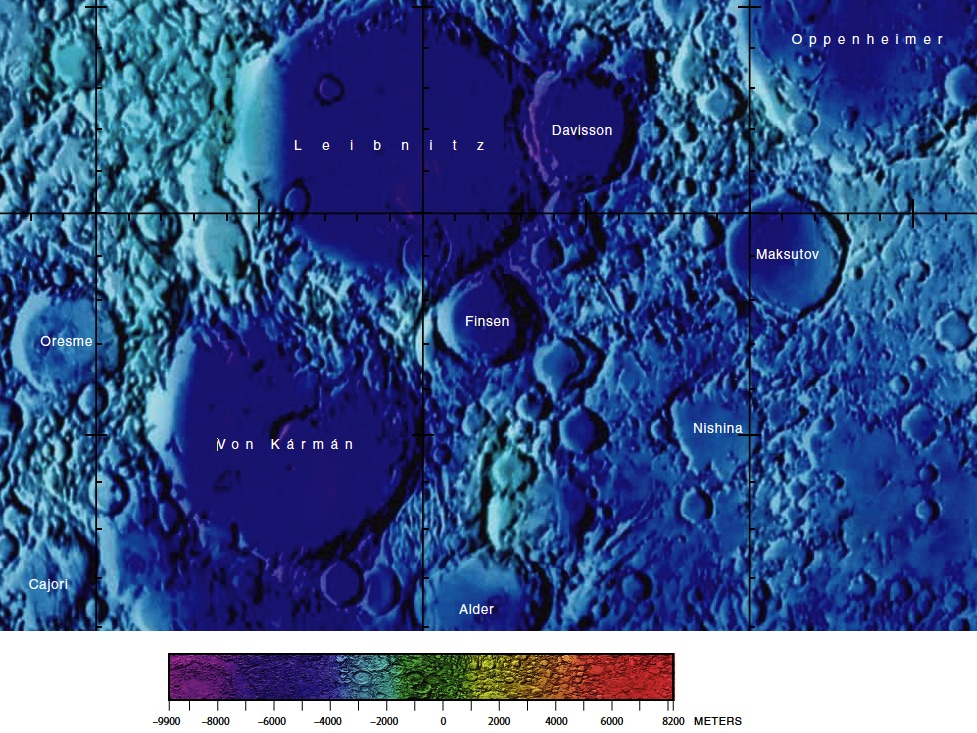 Part of the USGS far side lunar chart